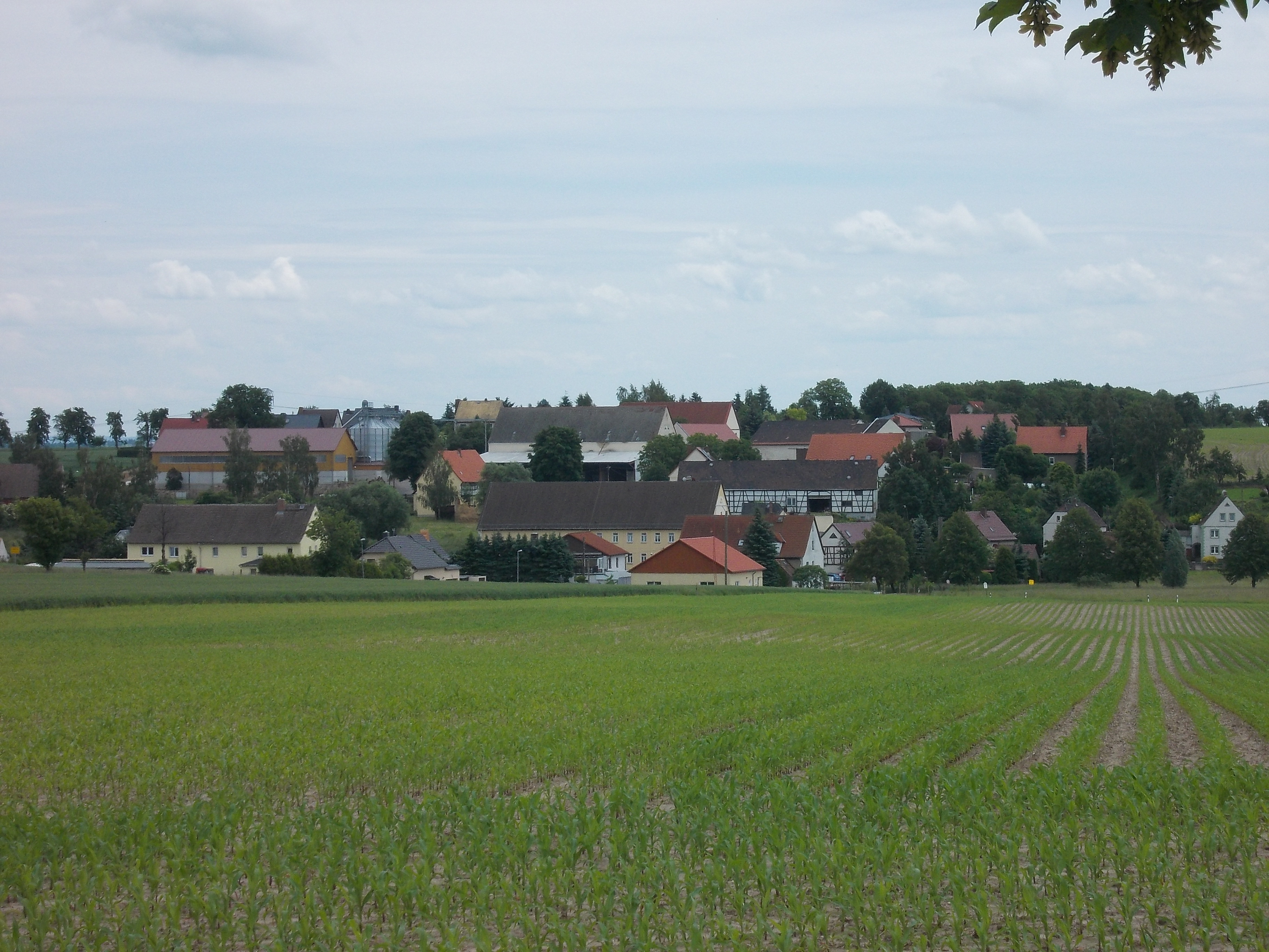 Göhren (district of Altenburger Land, Thuringia) from the north-west